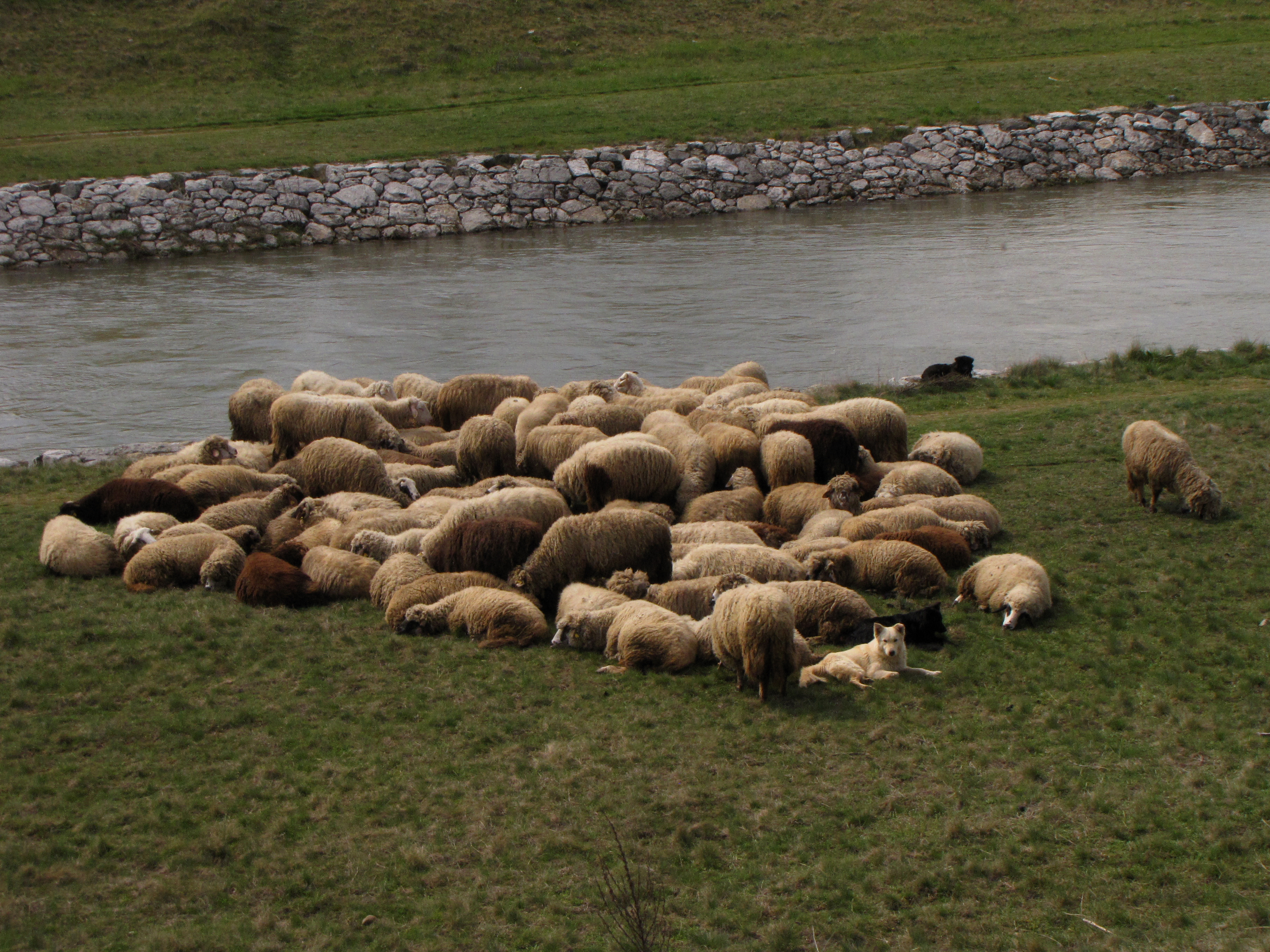 Pirot sheep